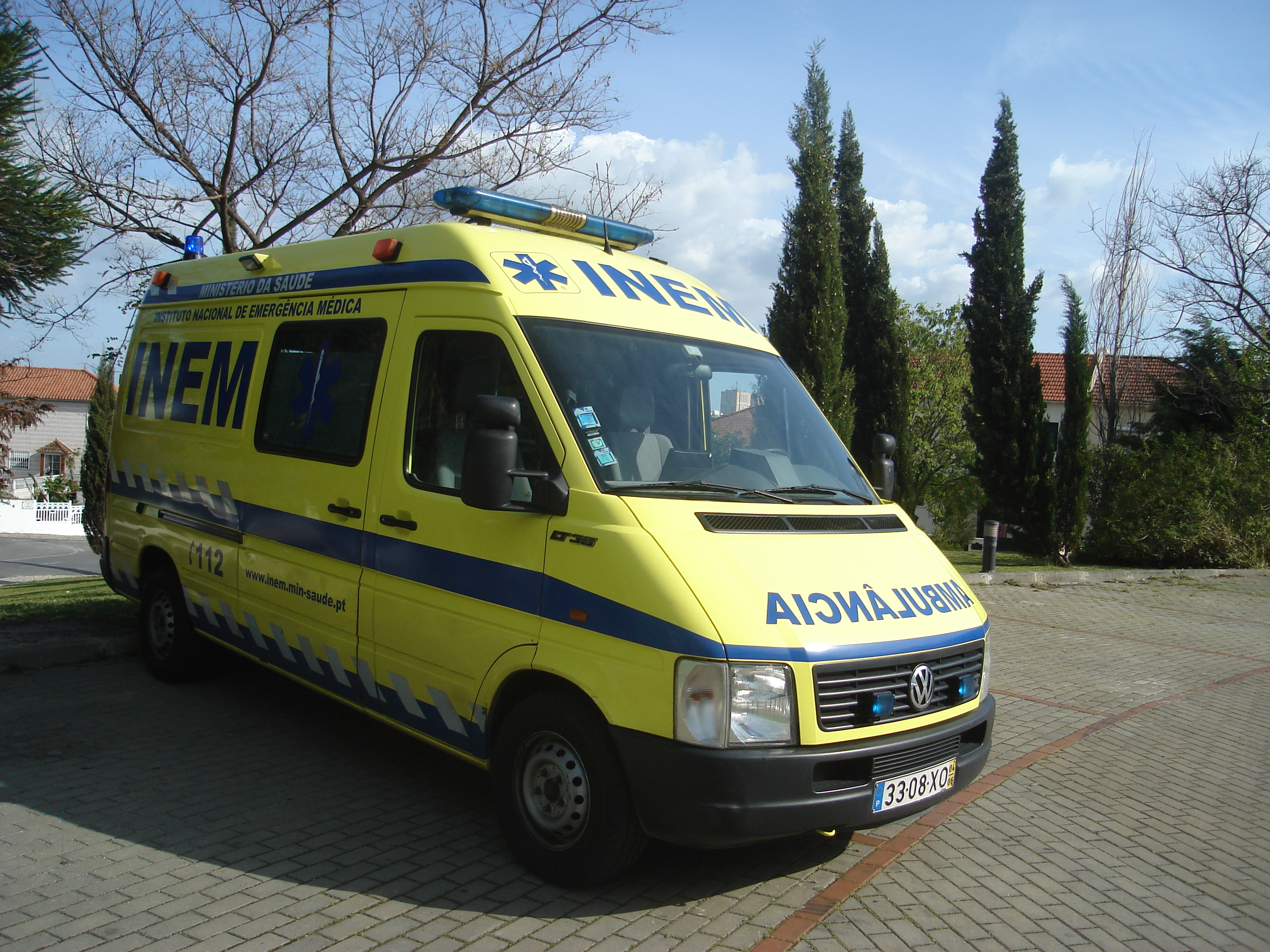 INEM ambulance frontal view, with "AMBULÂNCIA" in mirror writing ("AICNÂLUBMA")